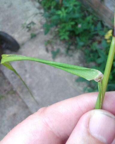 giant fescue ligule